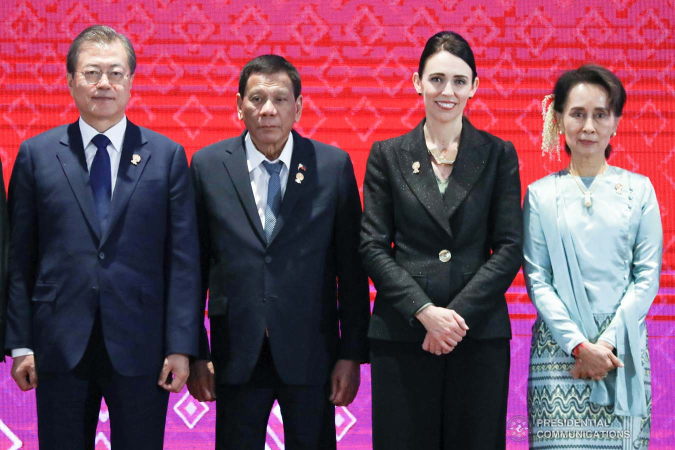 President Rodrigo Roa Duterte poses for posterity with some of the leaders in attendance during the 14th East Asia Summit at the Impact Exhibition and Convention Center in Nonthaburi, Thailand on November 4, 2019. TOTO LOZANO/PRESIDENTIAL PHOTO